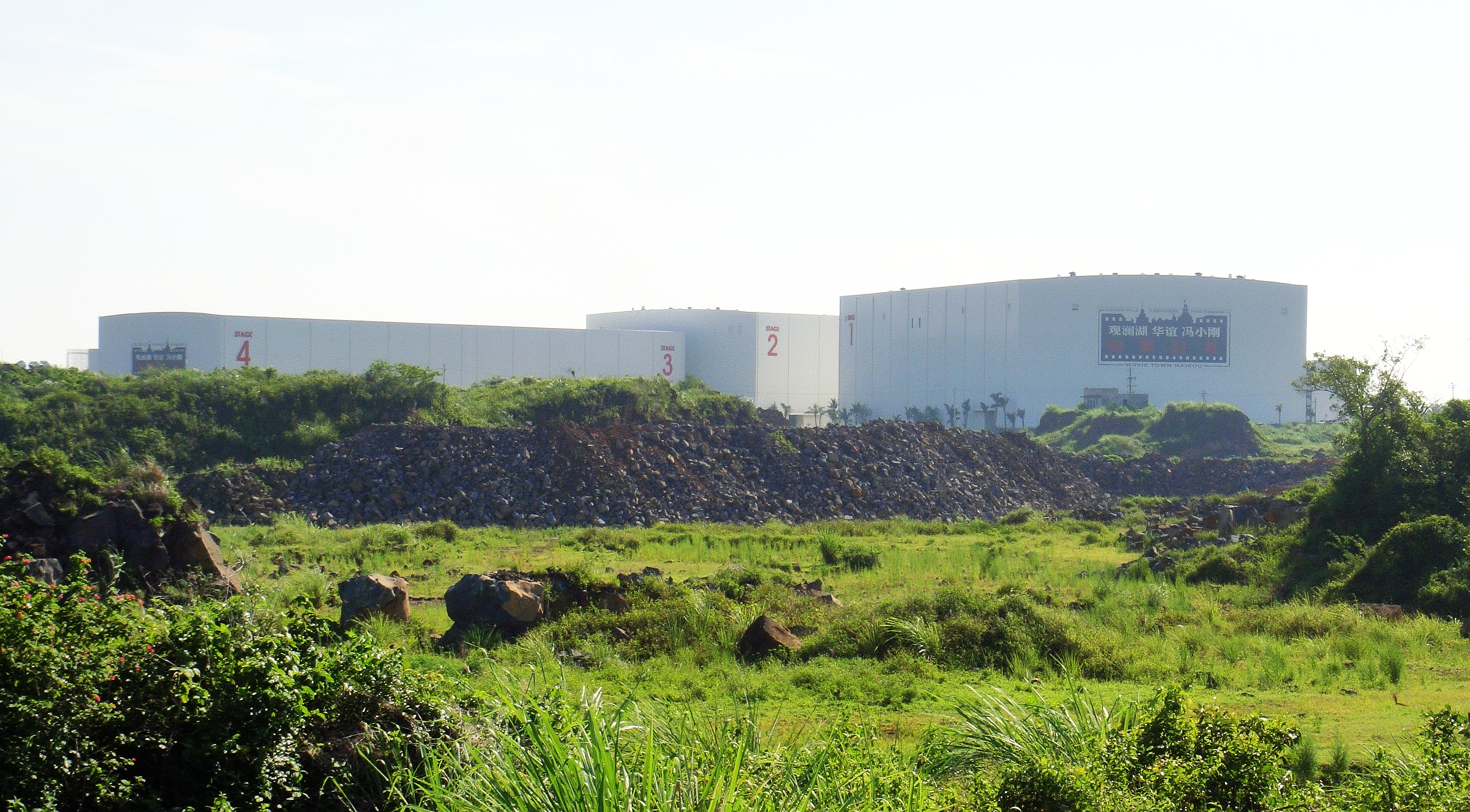 Movie Town Haikou - Studios